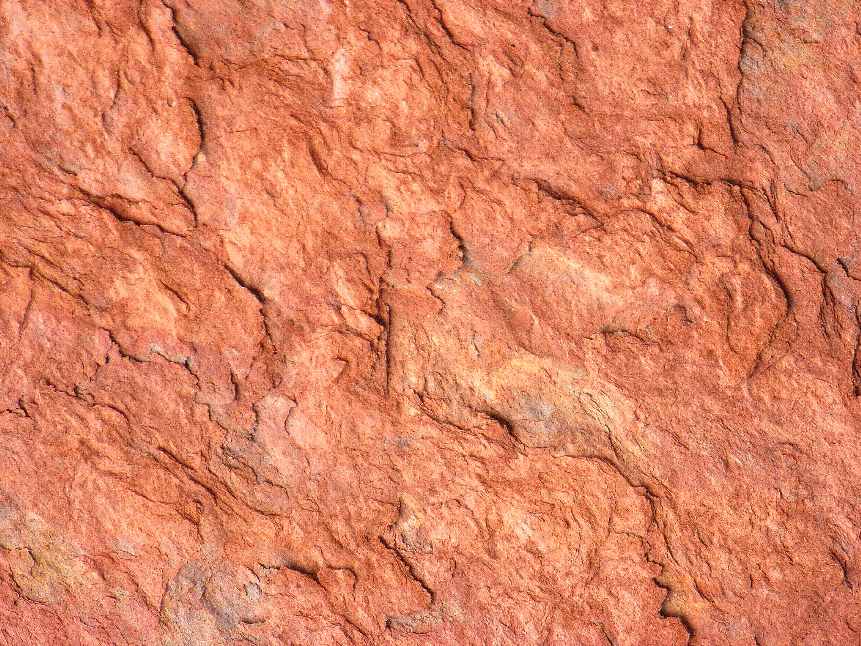 An interesting perspective on an iconic feature of the Australian landscape, Uluru. Close-up taken from around 30 centimetres (12 in).